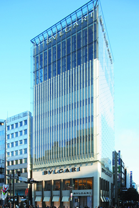 By Tokyo.JapanTimes View more at